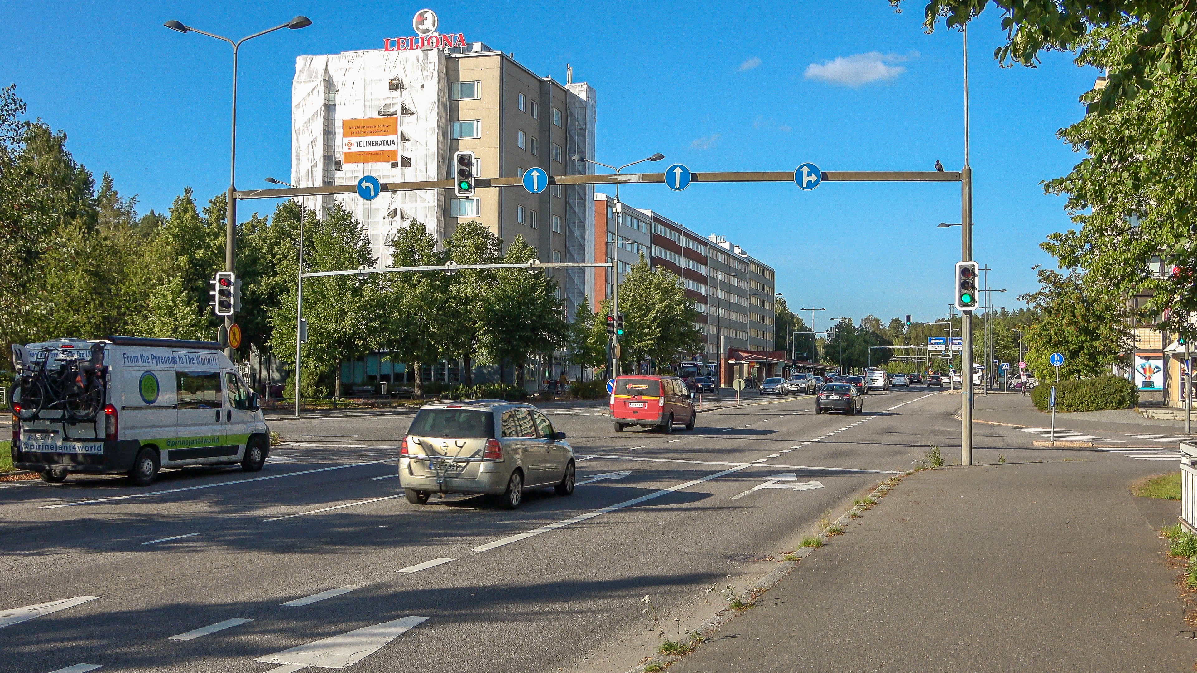 The Merikoski bridges continue on the Tuira side as Merikoskenkatu.